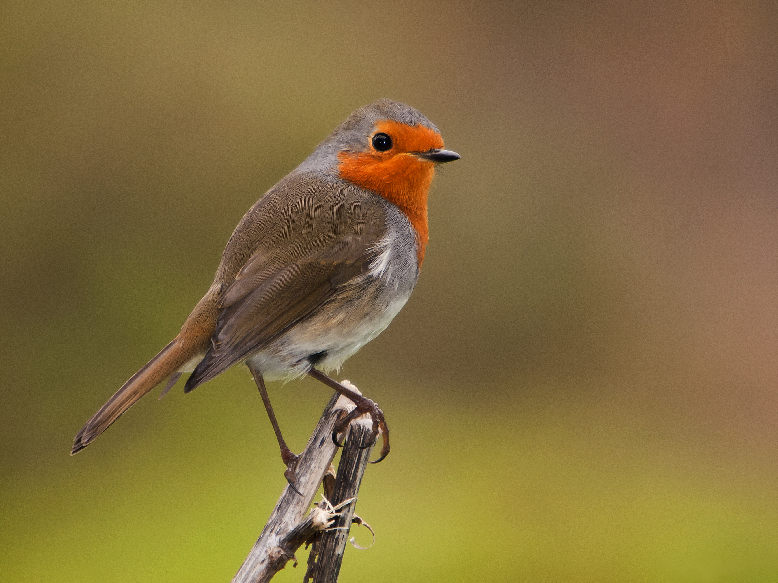 An adult European Robin on the Canary Islands, Spain. Las Palmas de Gran Canaria.